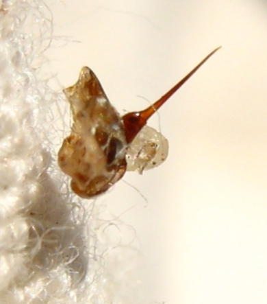 The stinger of a black bee (Apis mellifera mellifera) torn from the bee's body and attached to a protective dressing.